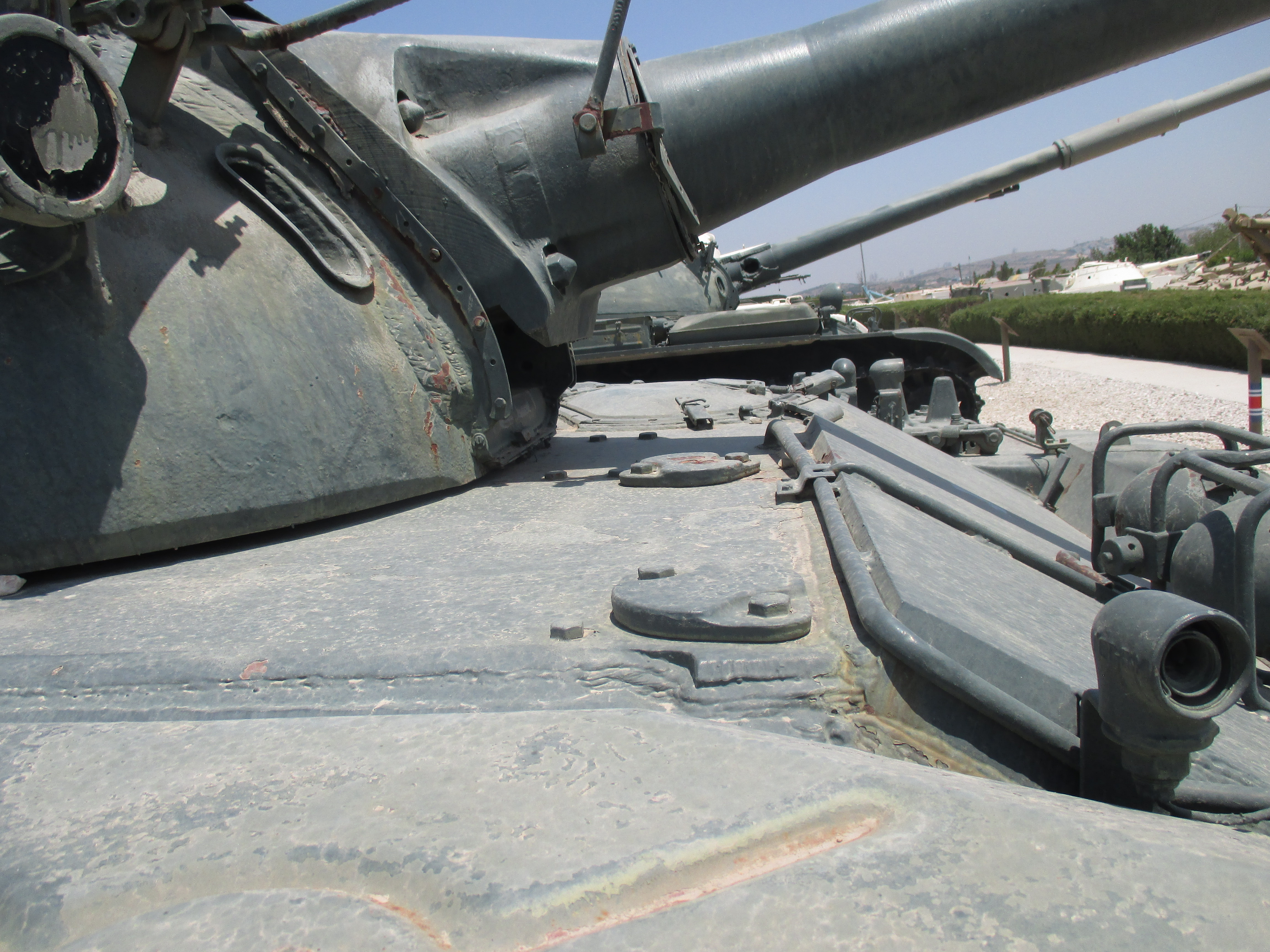 Turret rim of a T-55 tank at the Israeli Armoured Corps/Yad la-Shiryon Museum, Latrun, Israel.